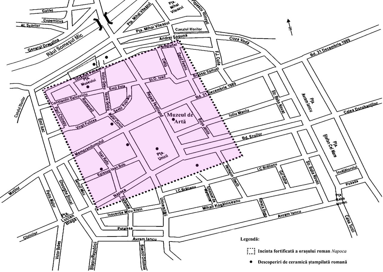 The fort of Roman city of Napoca, super imposed over the modern Cluj-Napoca city center